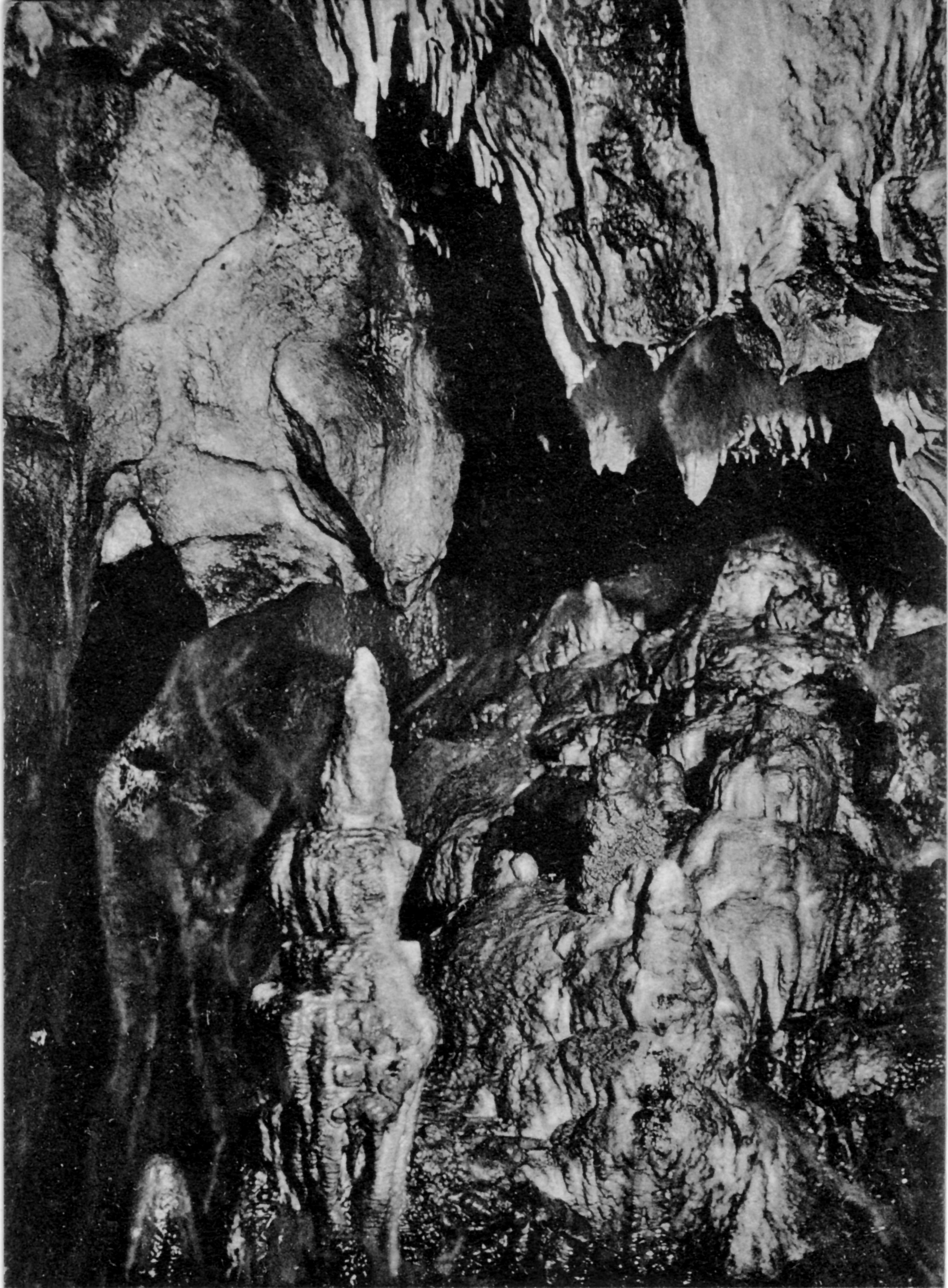 Speleothems in the Mladeč Caves in a historical postcard. The postcard can be partially dated by the Czechoslovak 50 heller stamp (see example) on the reverse, which expired in 1925.